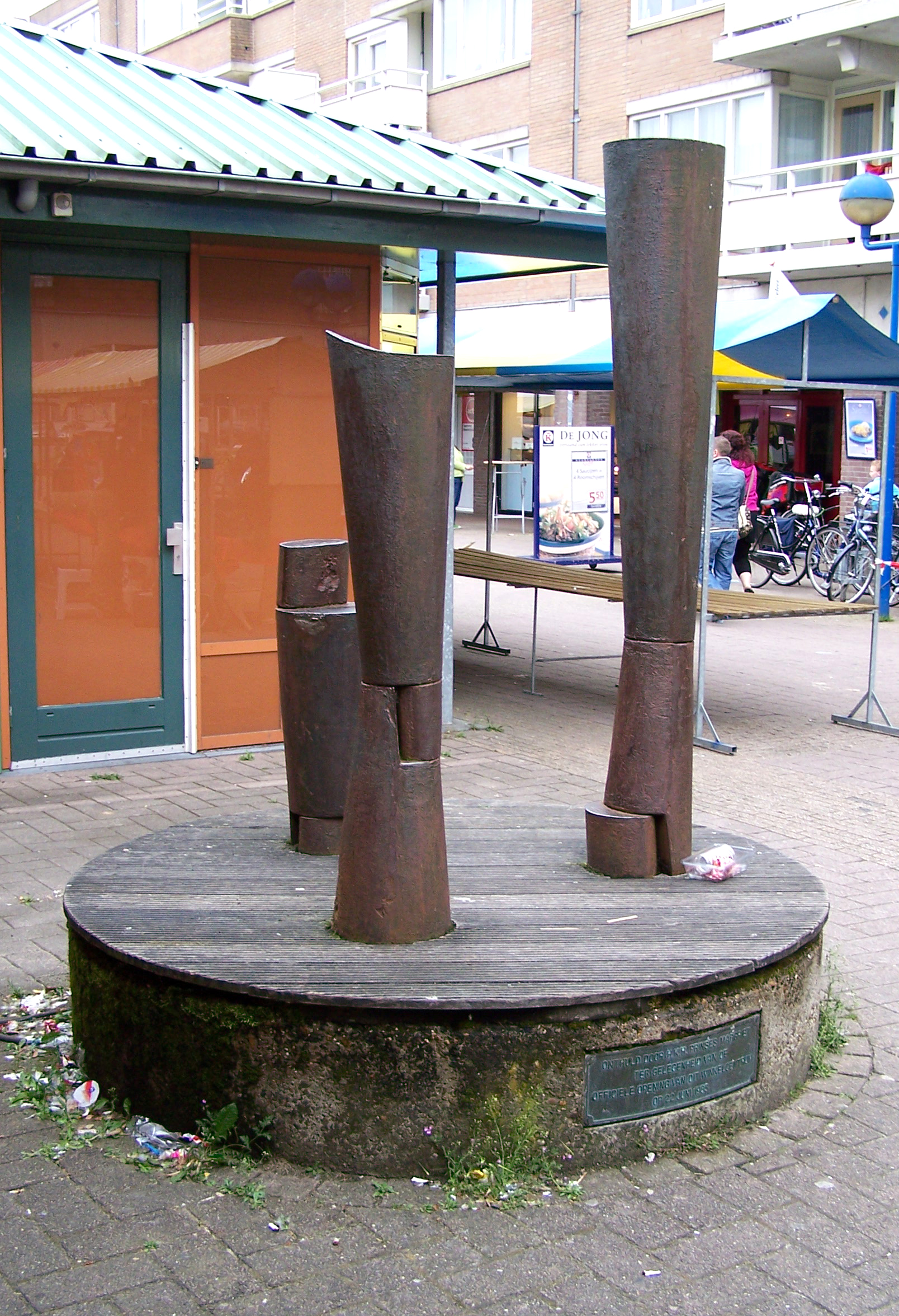 Sculpture made by M.J. Antonissen and placed at the Shoppingcentre Oostermeent in Huizen.